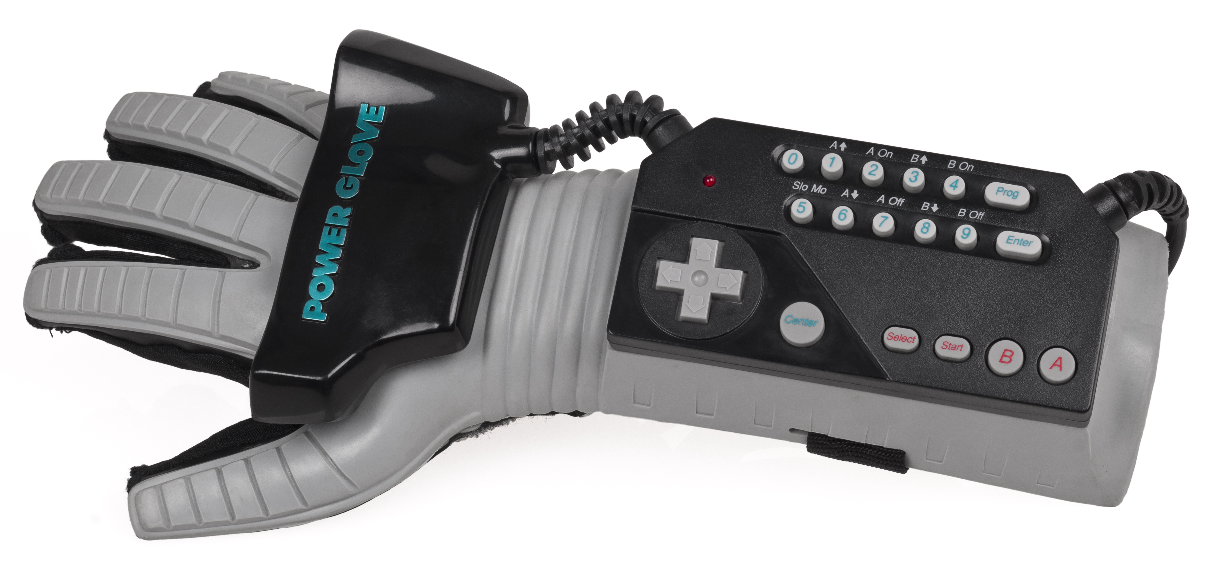 An American Power Glove controller for the NES, made by Mattel.